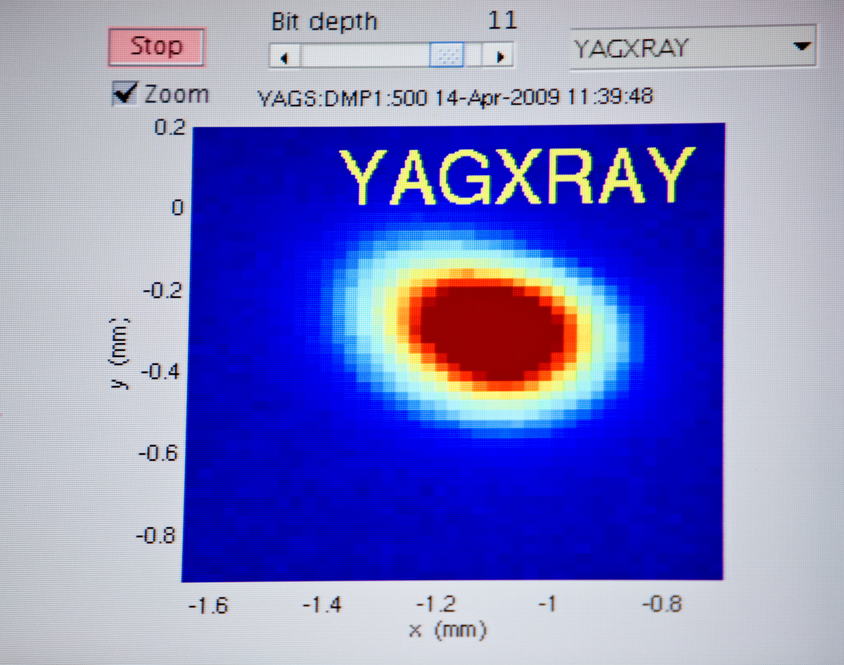 LCLS laser beamspot